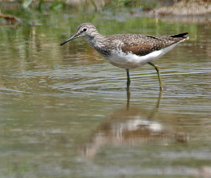 Green Sandpiper (Tringa ochropus) at Keoladeo National Park, Bharatpur, Rajasthan, India.